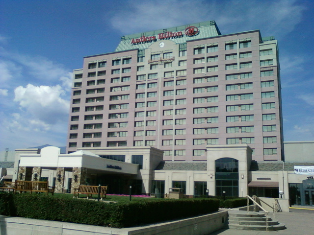 The Antlers Hilton hotel at the Palmer Center in downtown Colorado Springs